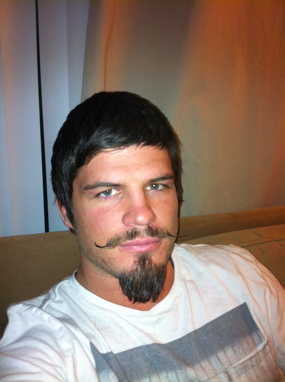 Matt Wiman Pointy Mustache